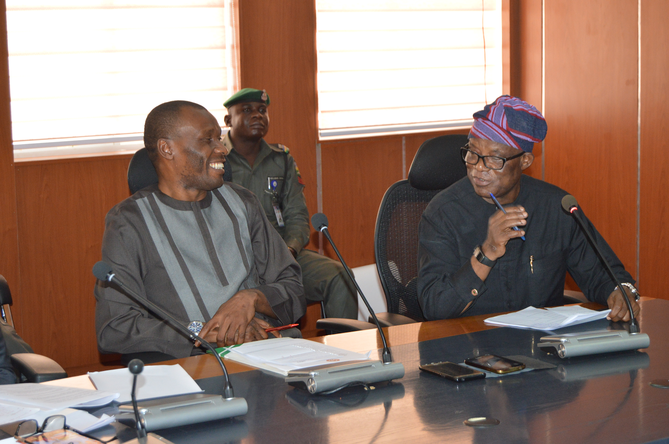 Usani Uguru Usani (Honorable Minister) and Claudius Daramola (Honorable Minister of State), Niger Delta Affairs.